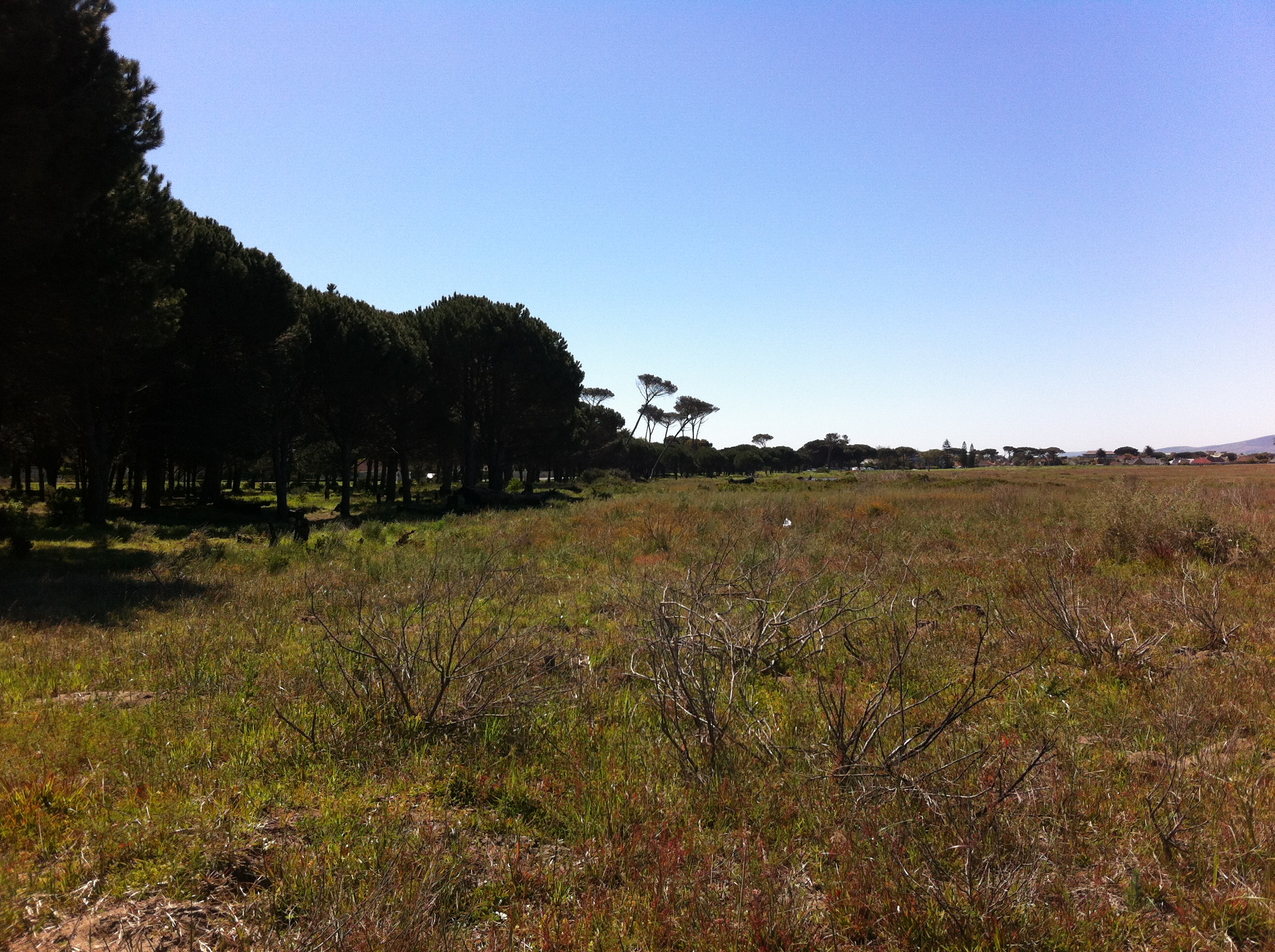 Rondebosch Common in September 2013